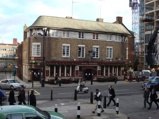 Royal George, Eversholt St